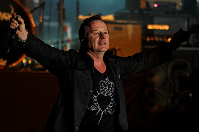 Simple Minds, Live at Buesum